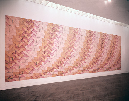 work by Artist Allan McCollum, 1972; Installation: Pasadena Art Museum, Pasadena, California